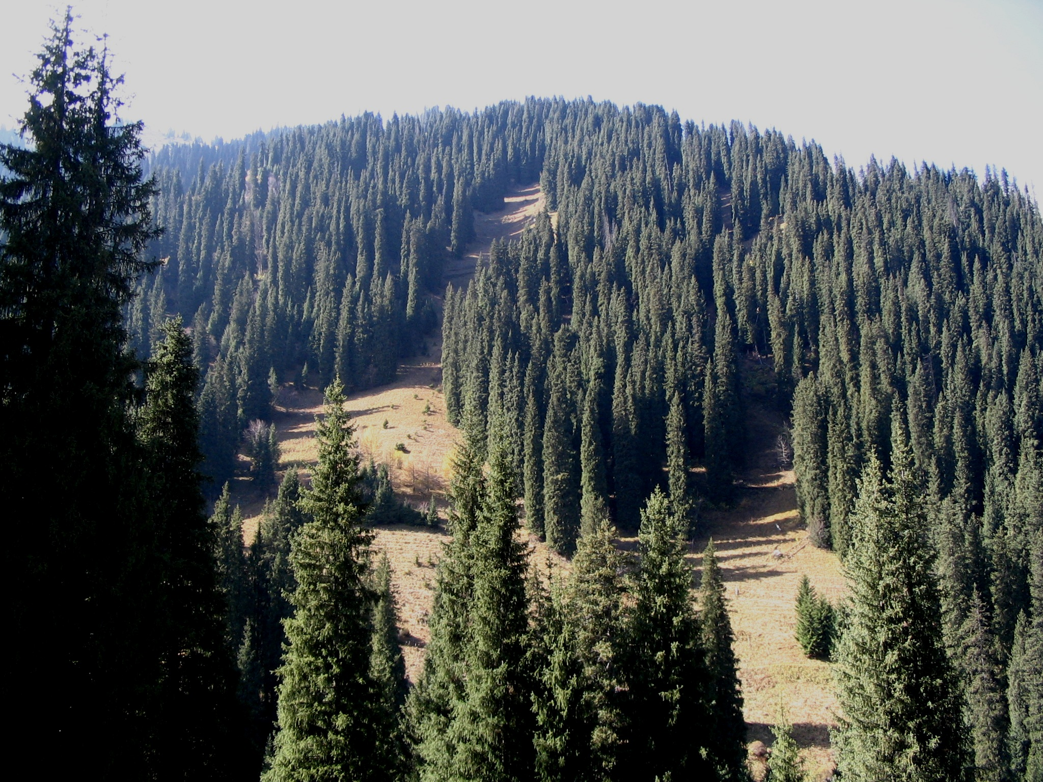 Picea schrenkiana Fisch. & C.A. Mey 1842, Chimbulak, Kazakhstan.